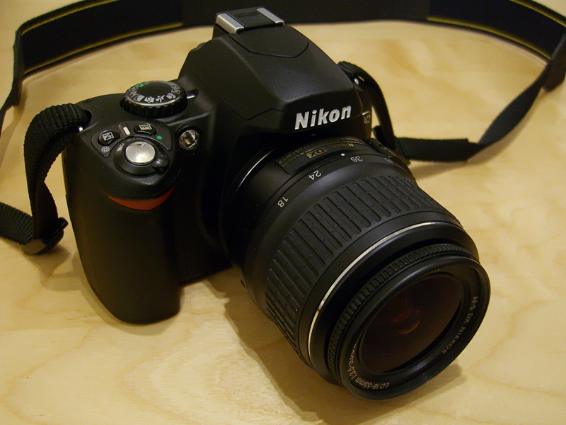 Nikon D40 with standard kit lens AF-S DX 18-55mm f/3.5-5.6G ED II